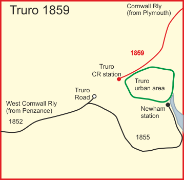 Diagram of rail system in Truro, England, in 1859